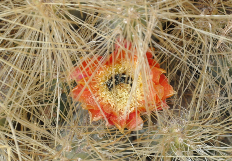 cactus near Tatio geyser field, Antofagasta Region, Chile